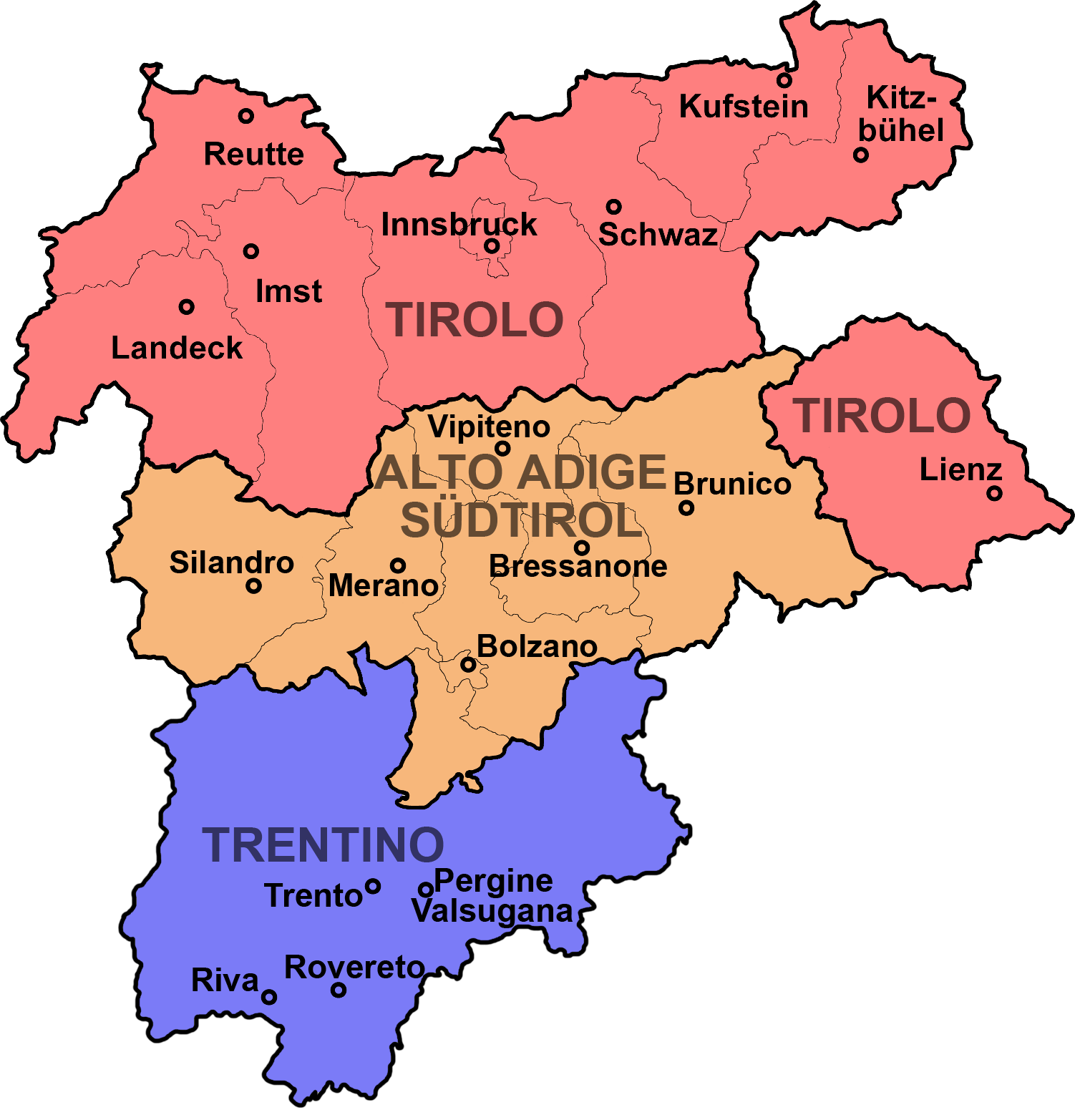 Map of Tirol-Südtirol-Trentino